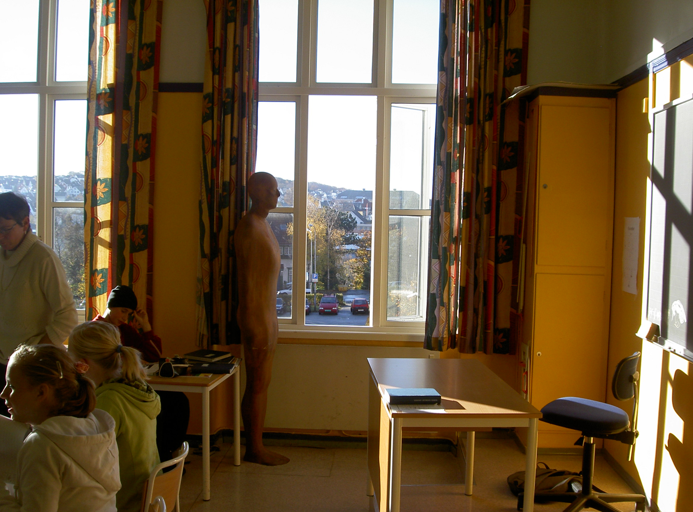 In a classroom